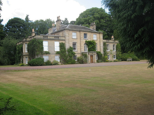 Bughtrig. Bughtrig means farm on a ridge. The present Georgian house was built between 1780 to 1790. The matching East and West Wings were added later, probably in the mid 19th century. The gardens are open to the public.